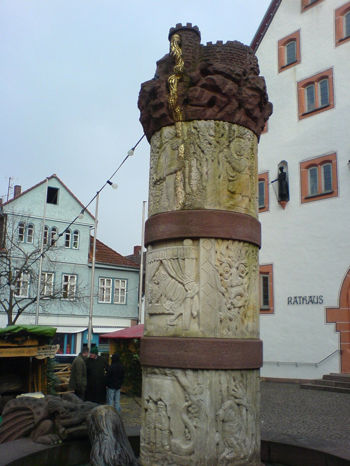 Fairy Tale Fountain (partial view), Steinau an der Straße (Main-Kinzig county, Hesse, Germany), dedicated to the Grimm Brothers who lived in this town from 1791 to 1796. Built in 1985.